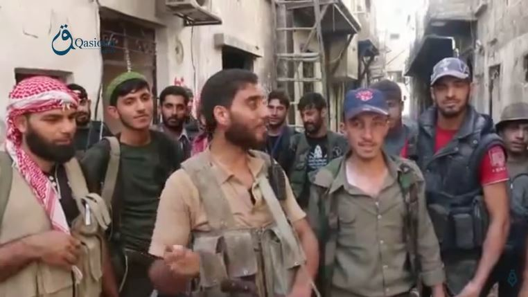 Damascus:clashes in frontlines of Jober neighborhood 17-10-2015